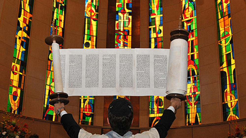 Interior of the Reconstructionist Synagogue of Montreal (Canada)